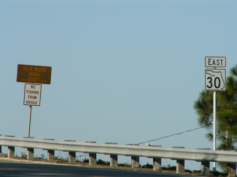 Erroneous Florida State Road 30 signage on US-98 at the west end of the Tillie Miller Bridge in Carabelle, Florida, USA, looking east from the Franklin County Road 379 intersection. FL-30 is a "hidden" or "secret" designation for US-98 for state bookkeeping purposes, and is not supposed to be signed.